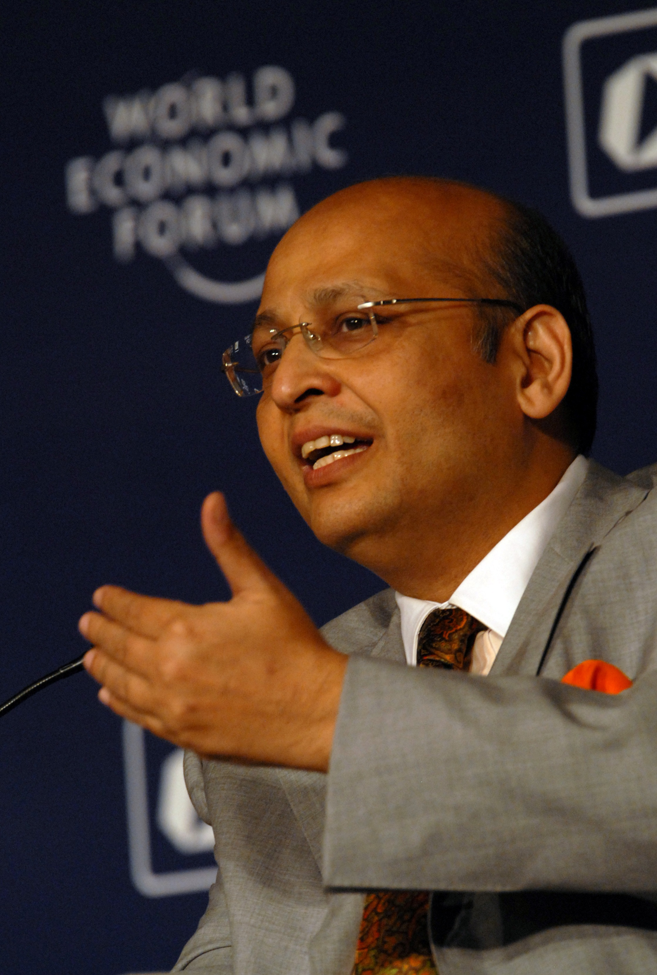 Abhishek Manu Singhvi, Indian politician, speaks during a plenary session on the political landscape at the World Economic Forum's India Economic Summit 2008 in New Delhi, India.